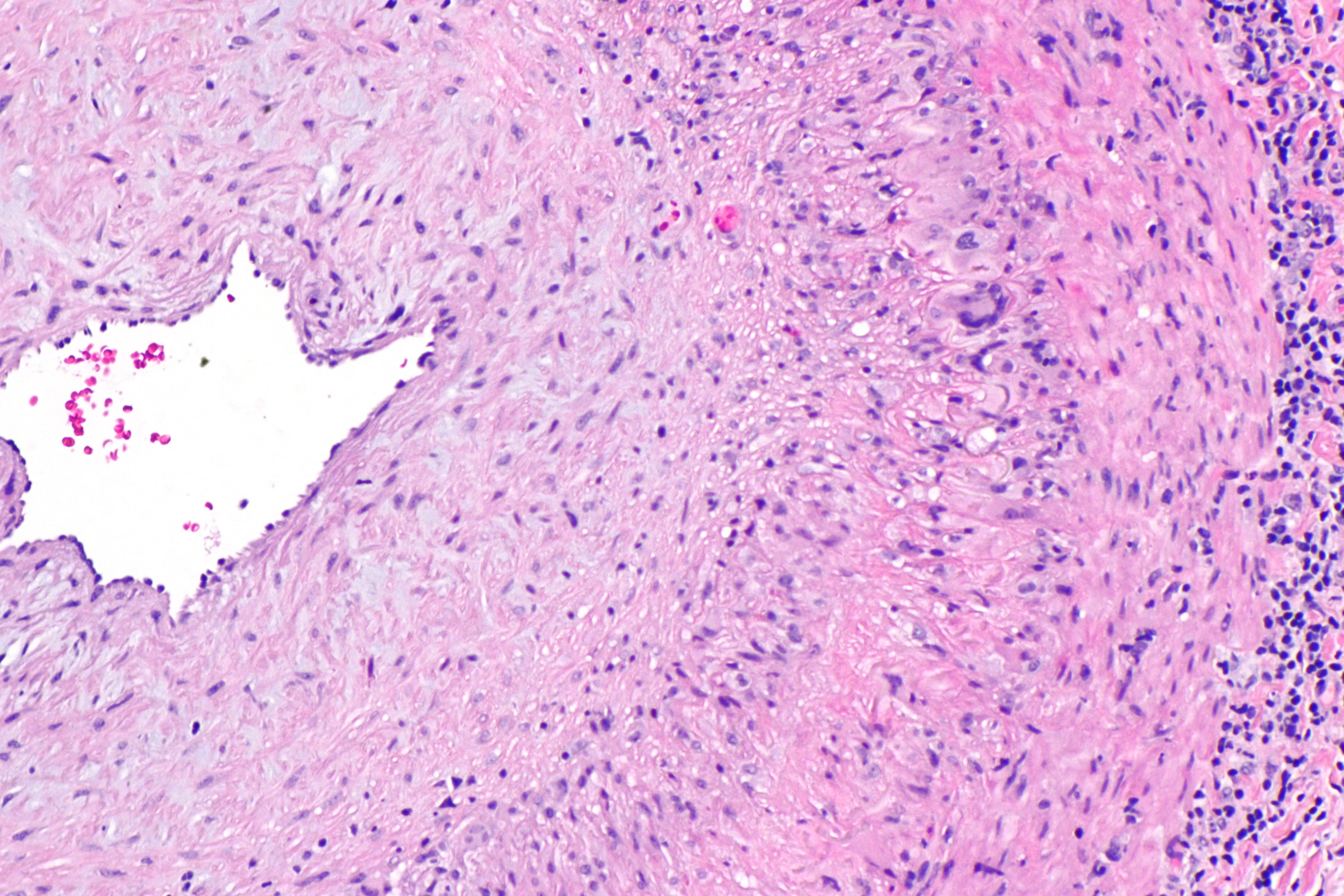 Micrograph of giant cell arteritis (also temporal arteritis). H&E stain. See also GCA - very low mag. GCA - low mag. GCA - intermed. mag. GCA - high mag. GCA - intermed mag. GCA - high mag.